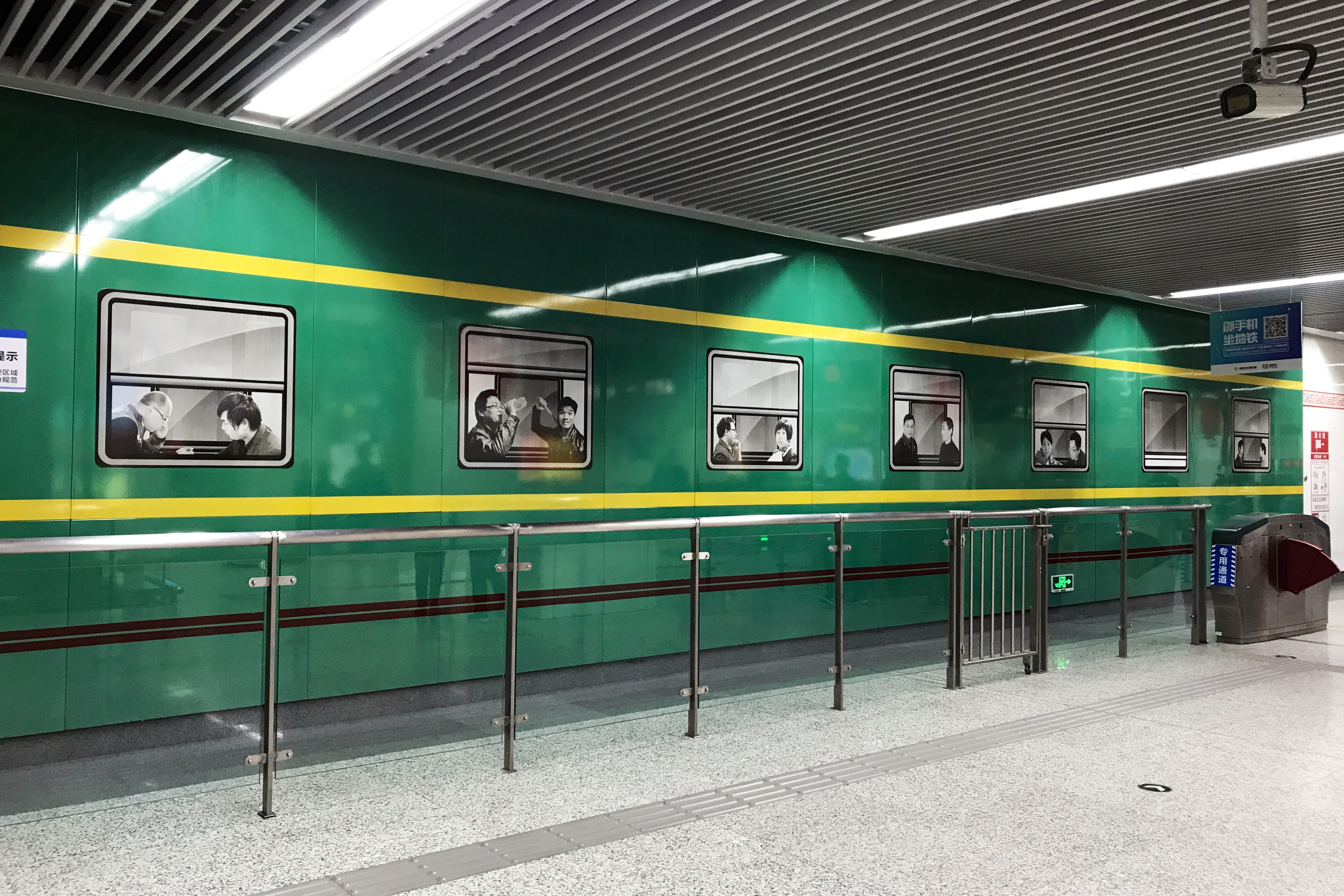 A mural at the concourse of Zhengzhou Railway Station (Zhengzhou Metro) depicting a typical olive-green train carriage in China